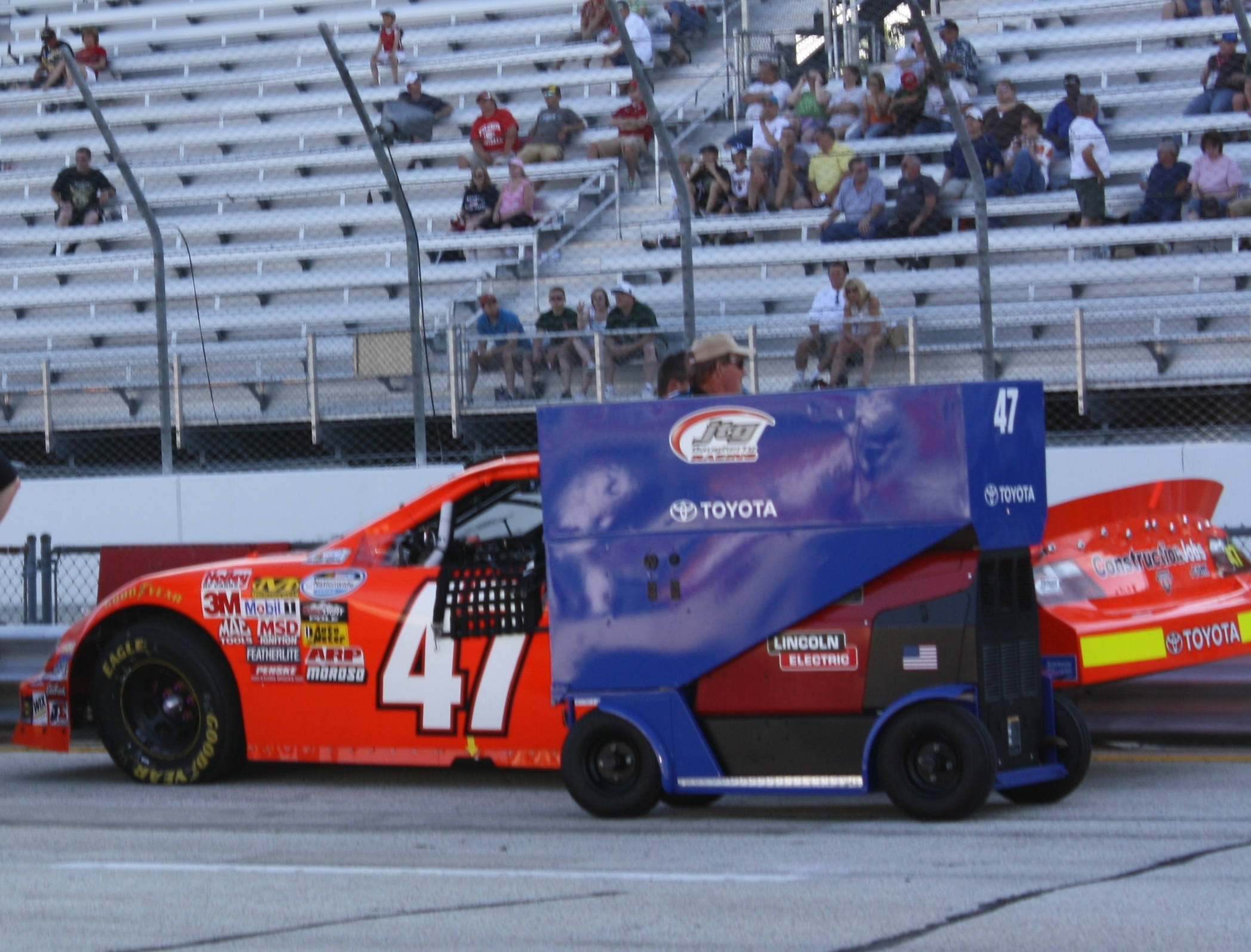 NASCAR driver Michael McDowells Toyota at the 2009 Northern 250 Nationwide Series race at the Milwaukee Mile.